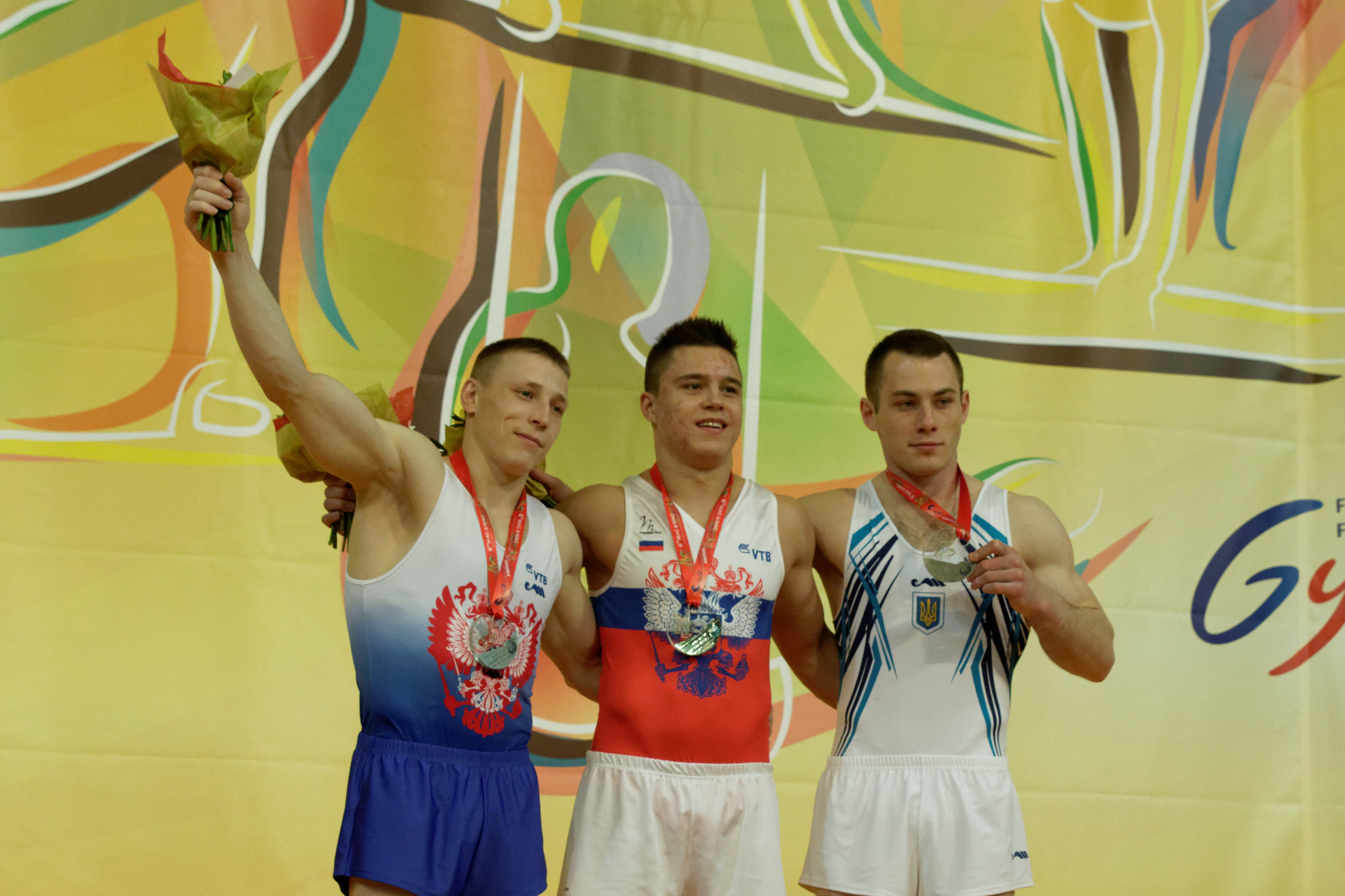 2015 European Artistic Gymnastics Championships.